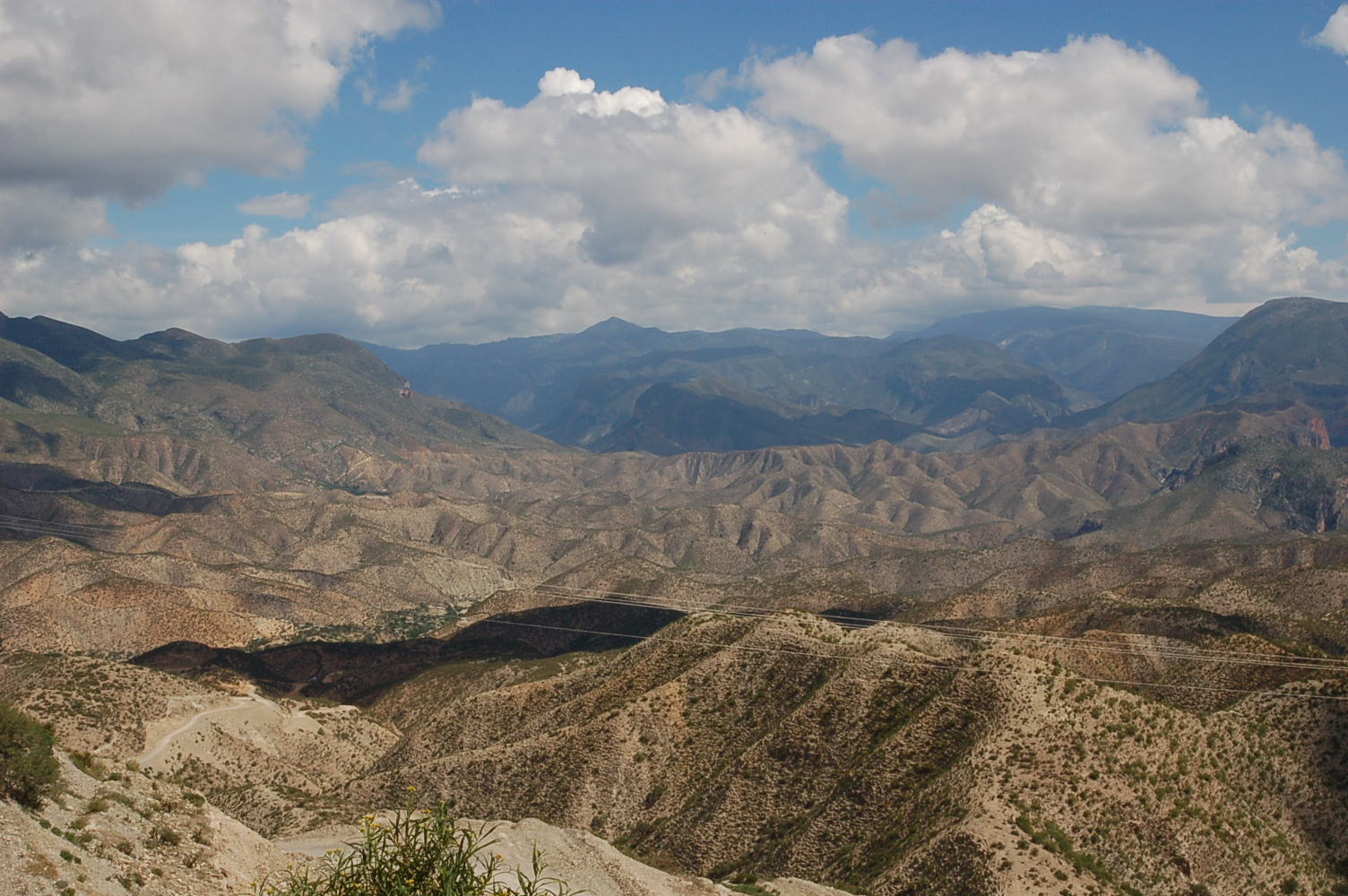 Desert, Sierra Gorda de Querètaro, Mexico